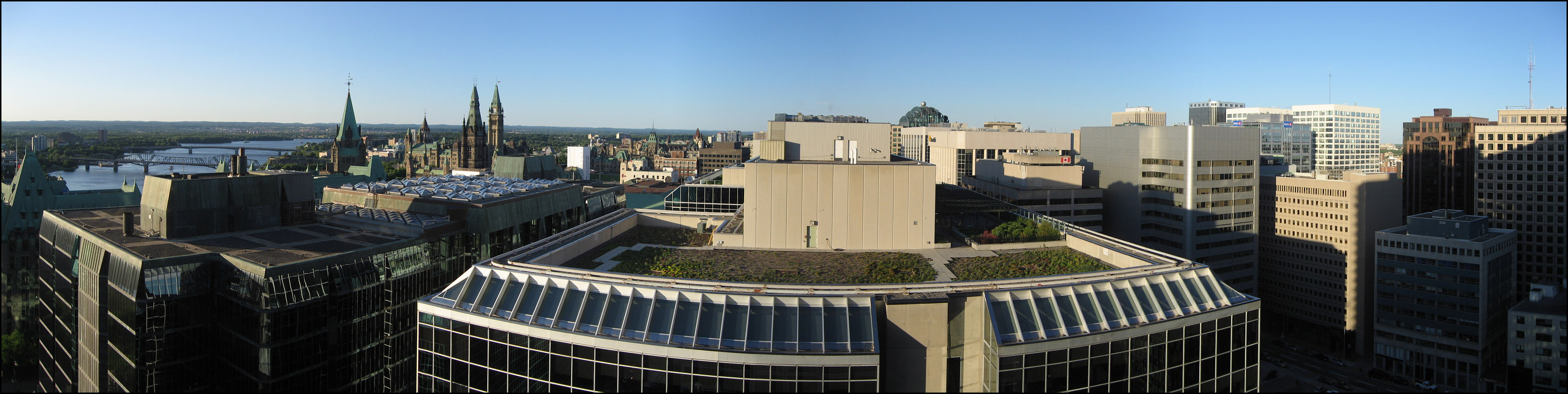 23rd June 2007 Ottawa downtown area from Crowne Plaza Hotel.